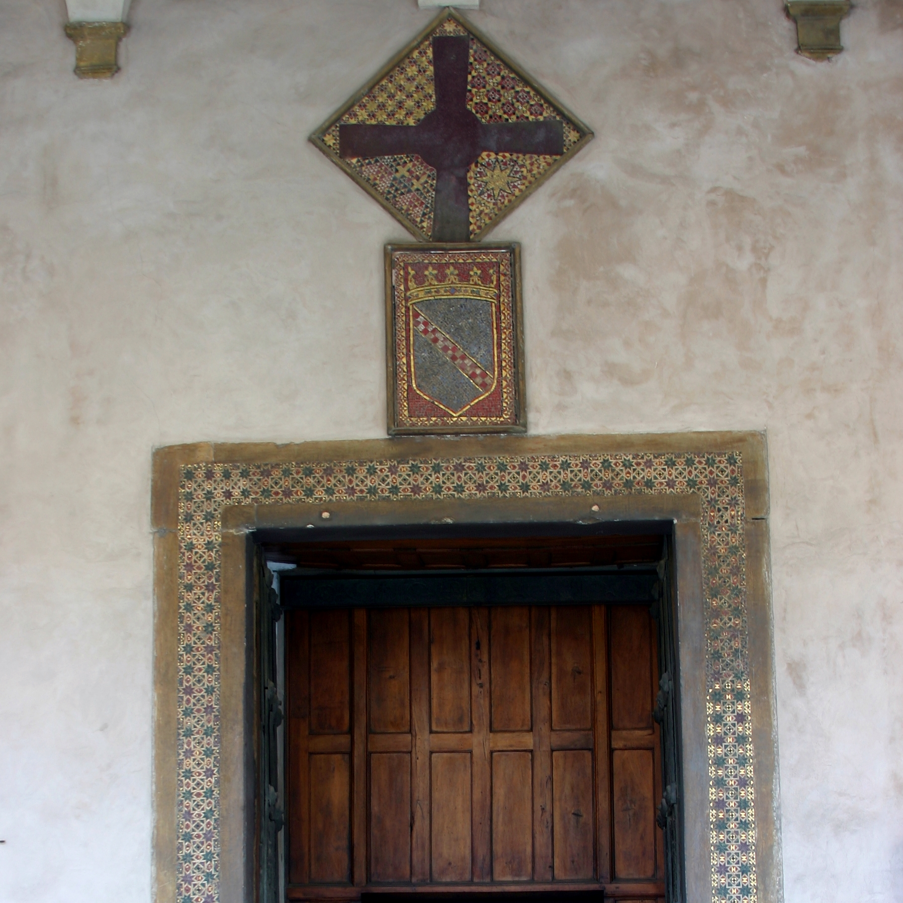 Cathedral of Monreale, lateral portal (upper section)